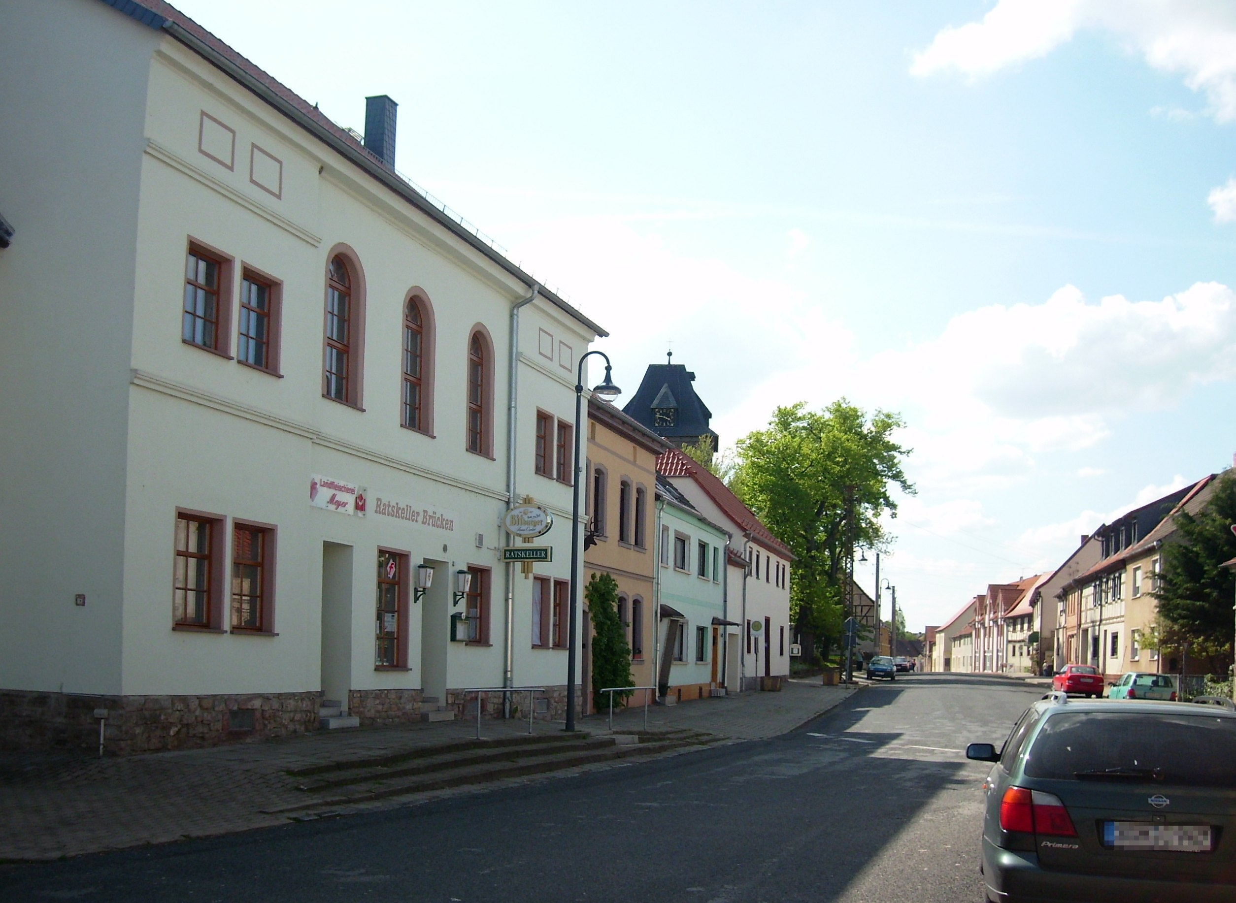 Hauptstrasse with Ratskeller restaurant in Brücken/Helme (Brücken-Hackpfüffel, Mansfeld-Südharz district, Saxony-Anhalt)